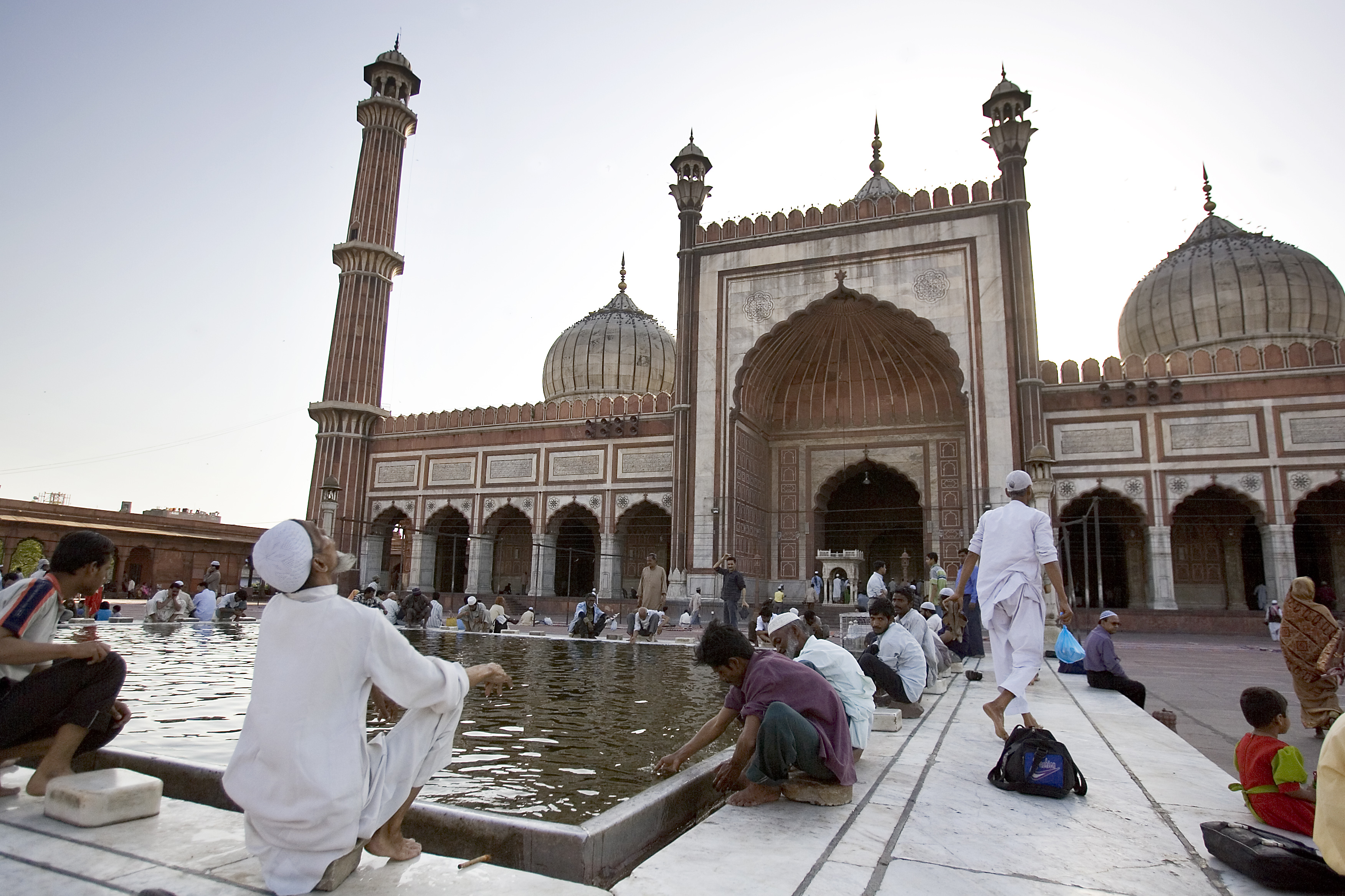 Jama Masjid the main mosque in Delhi India